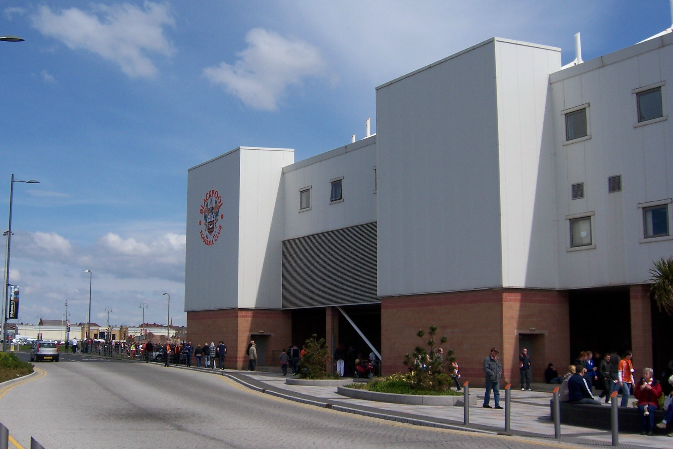 Bloomfield Road, Seasiders Way, Blackpool - 1 Seasiders way runs along the front of Blackpool F.C's West Stand ... on this day Blackpool were playing Nottingham Forest in the Championship Play-offs